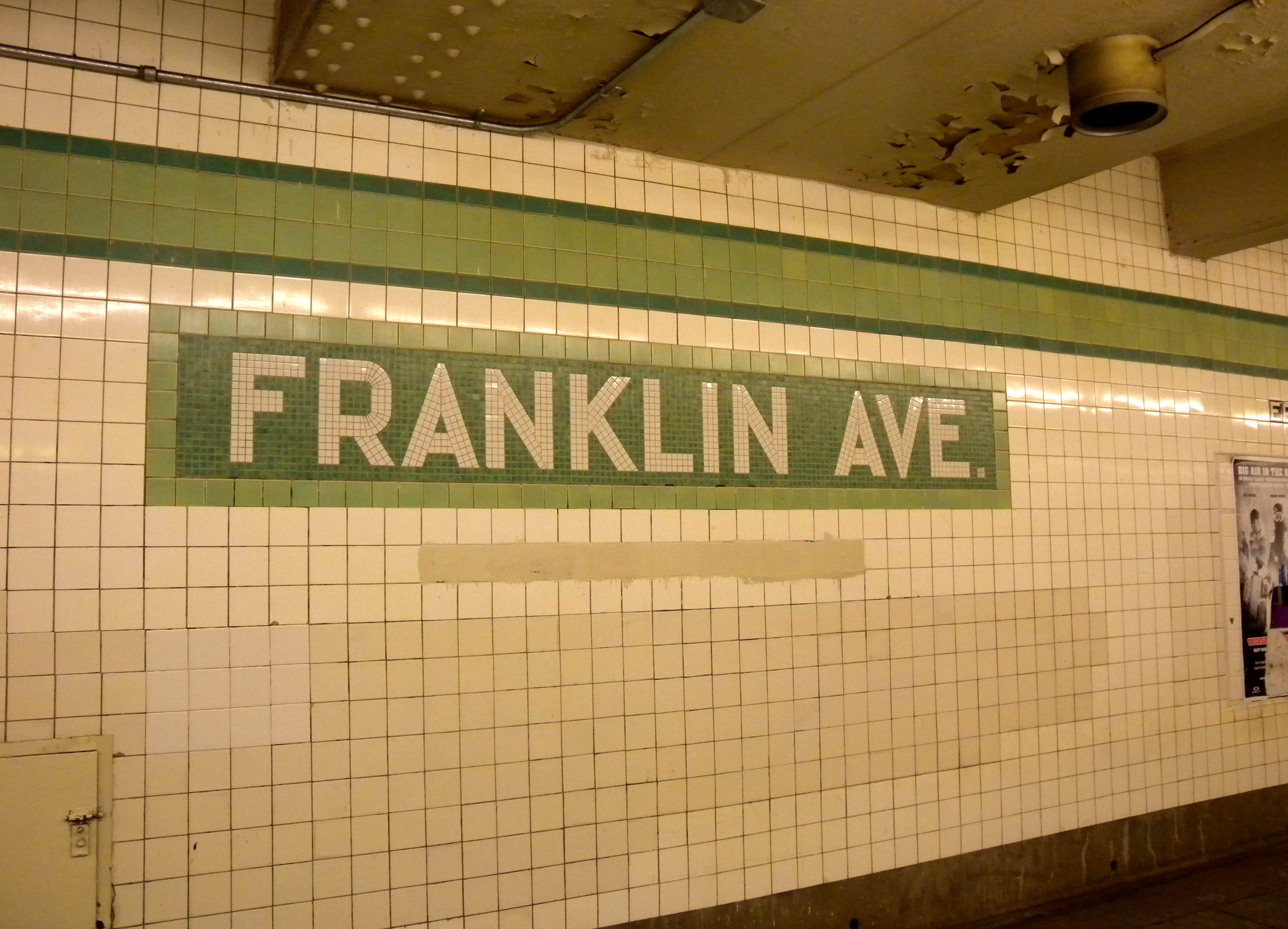 Looking northeast out a car door at platform of IND Franklin Avenue (New York City Subway)